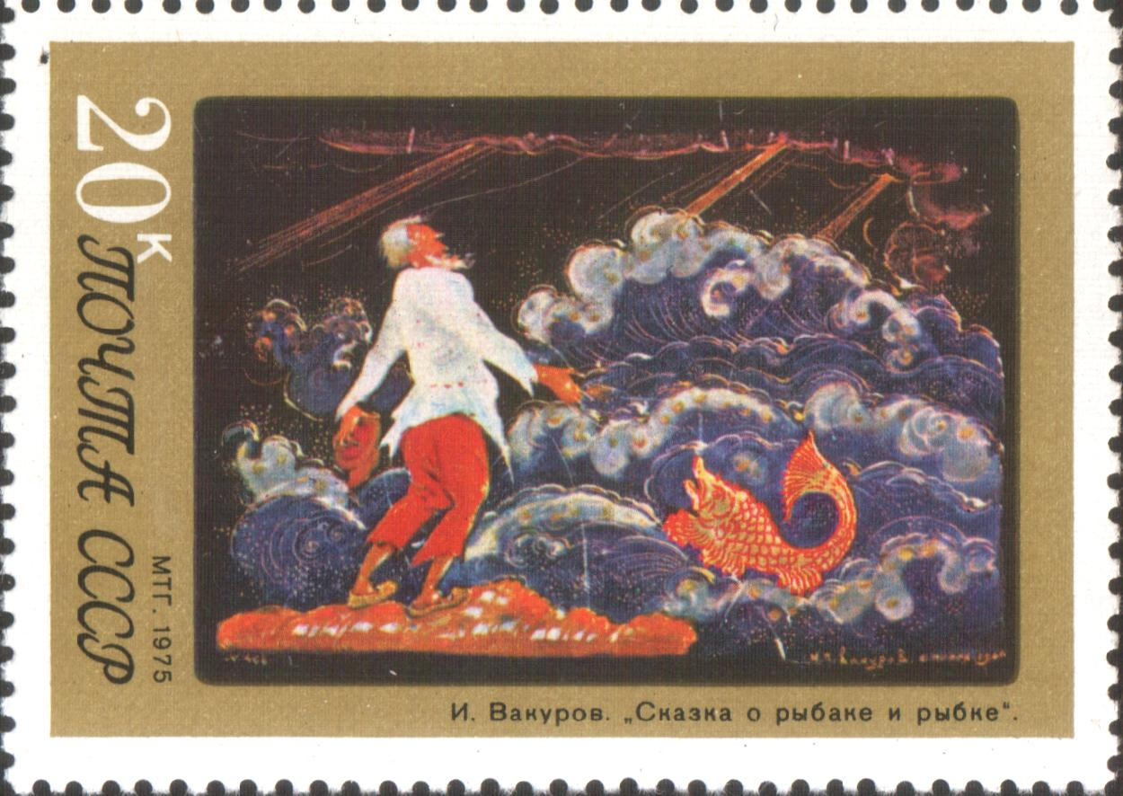 A USSR stamp